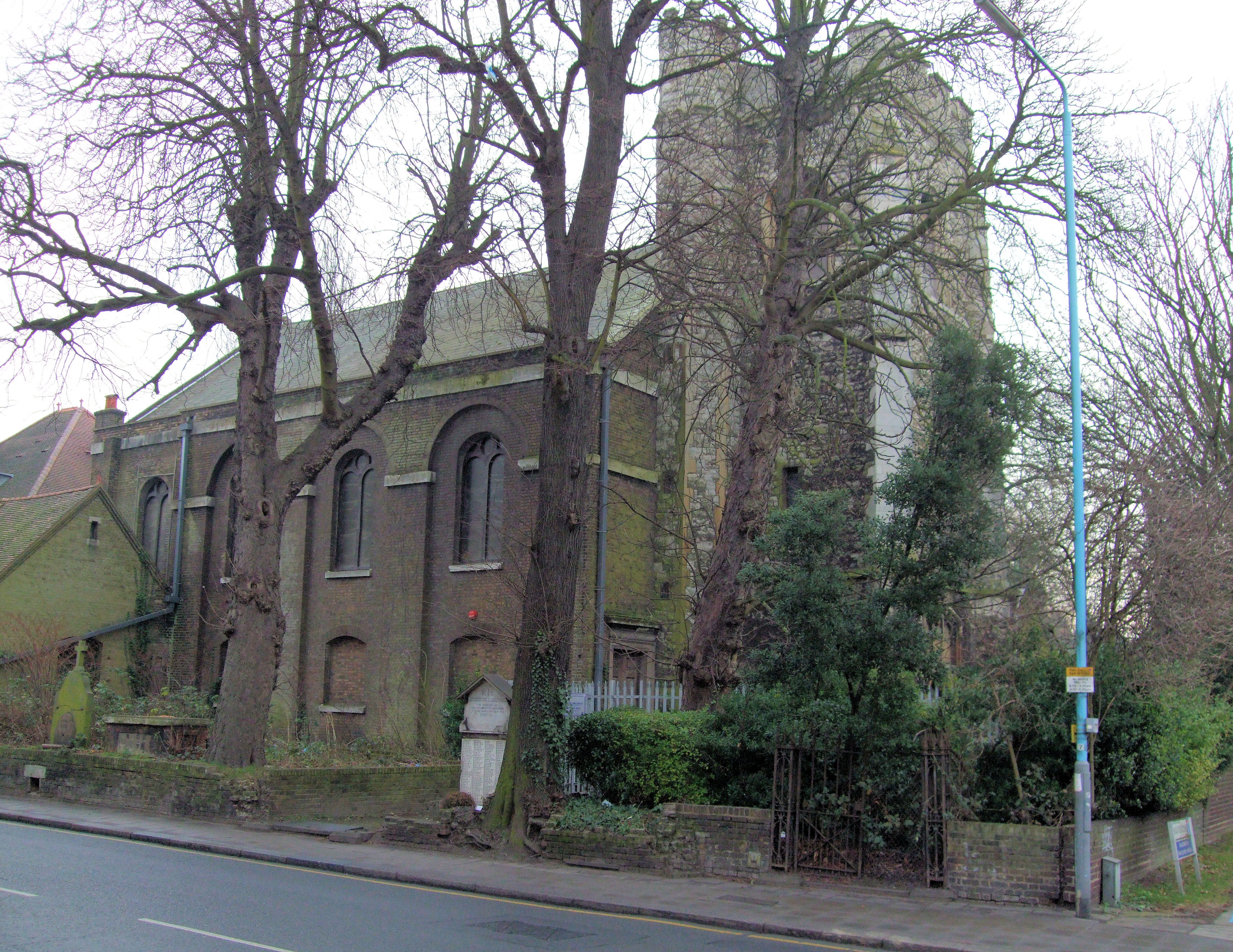 Former parish church of St Lawrence, High Street, Brentford, Middlesex, seen from the northwest. The west tower is 15th-century. The current nave was built in 1764. The church has been closed since 1979. Since this photo was taken, the war memorial outside the church (the stone with a gable in the centre) has been moved to Brentford Library.